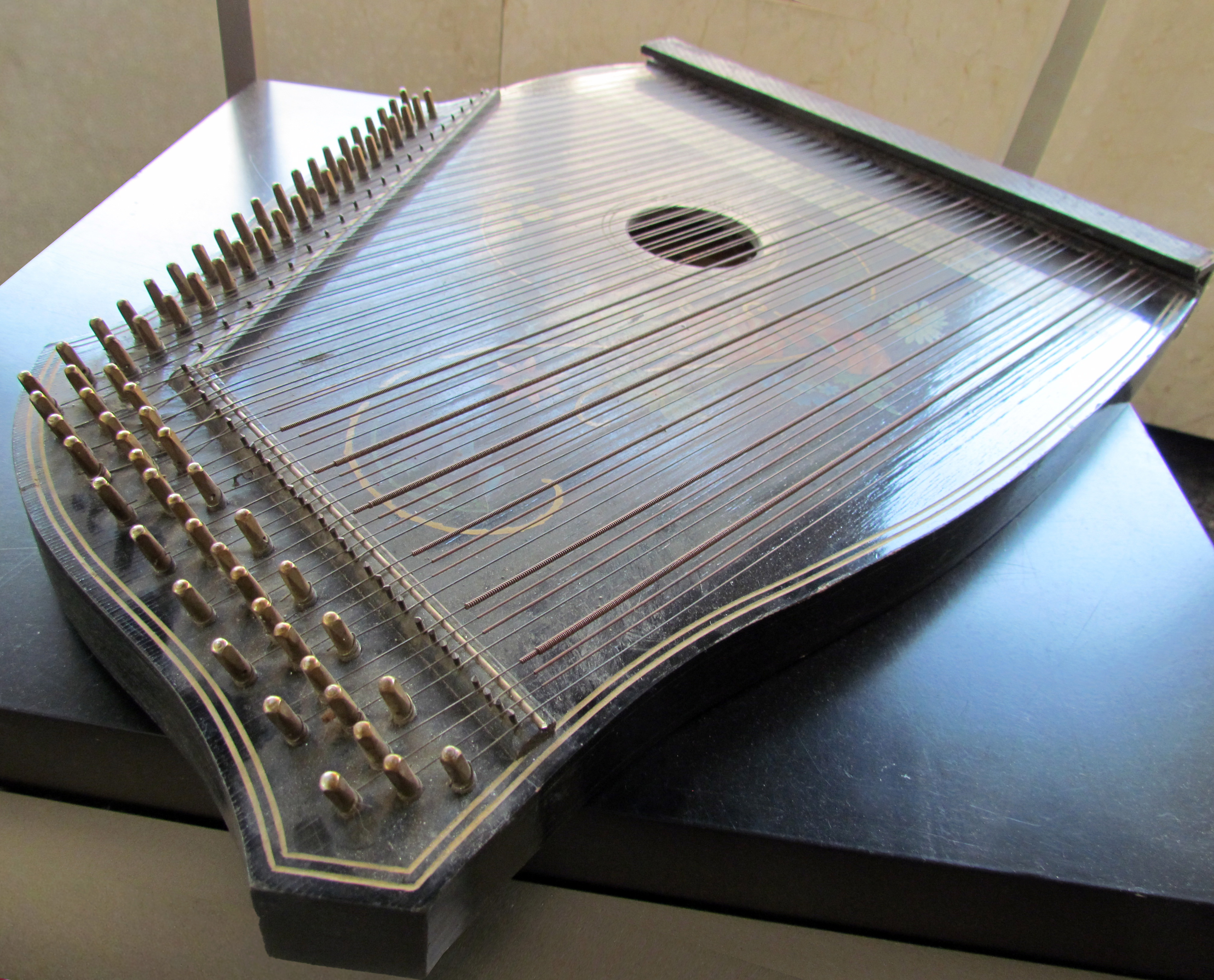 Guitar zither